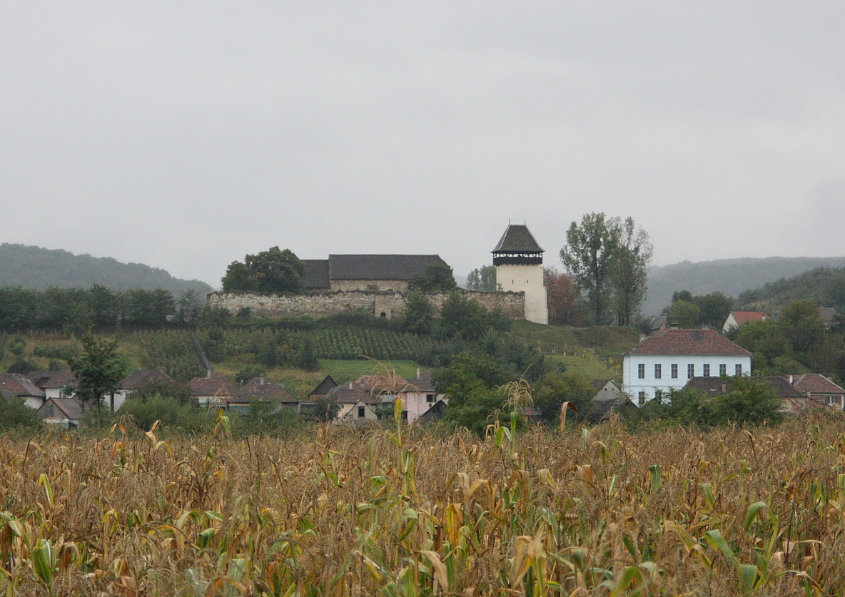 Picture Taken between Blaj and Copsa Mica near Micasa